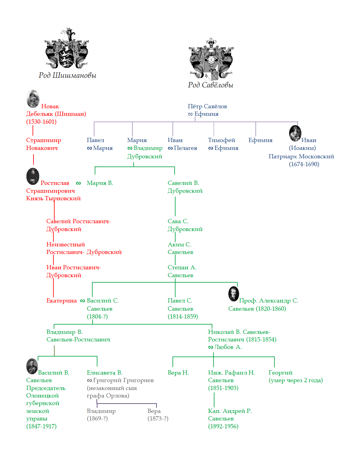 Genealogy tree of Savelev-Rostislavic family.